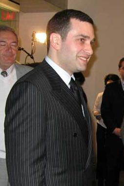 Irakli Alasania, Permanent Representative of Georgia in the United Nations. "On Wednesday, March 14, 2007 a special reception was held at CEC ArtsLink, (New York, NY) in honor of Ambassador Irakli Alasania, Permanent Representative of Georgia in the United Nations."